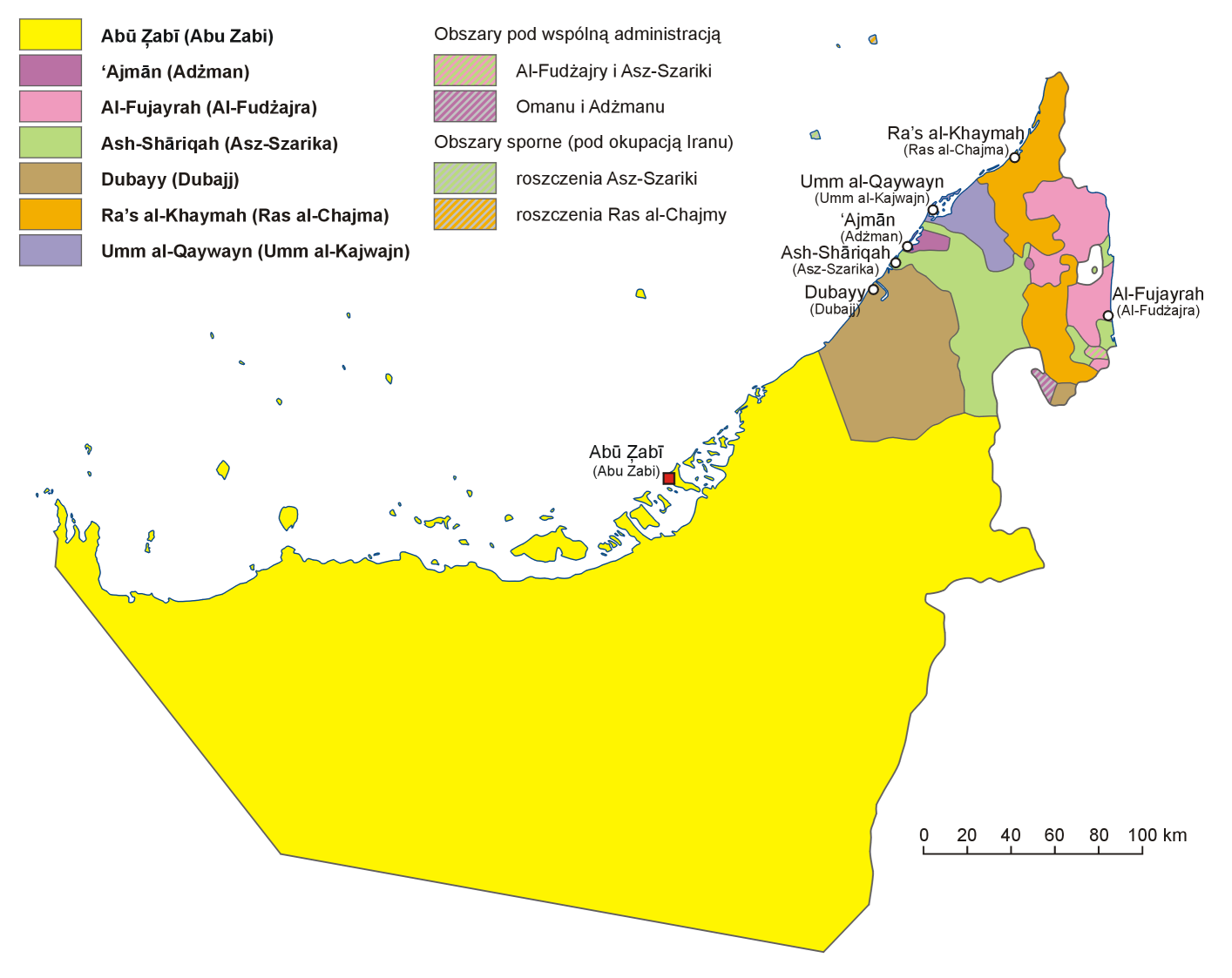 Administrative map of the United Arab Emirates in Polish. Created by Aotearoa Mapa administracyjna Zjednoczonych Emiratów Arabskich, wersja polskojęzyczna. Autor: Aotearoa